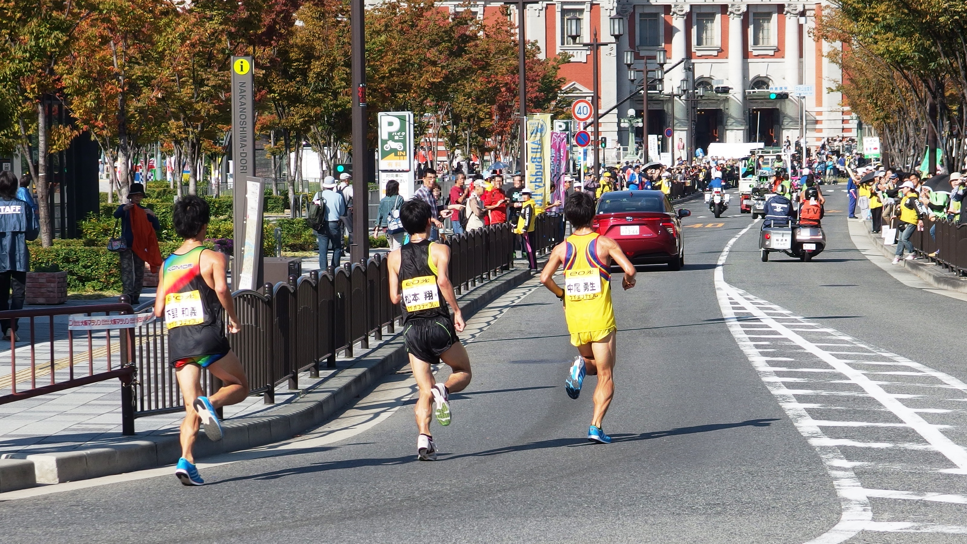 Osaka_Marathon, Osaka, Osaka Prefecture, Japan